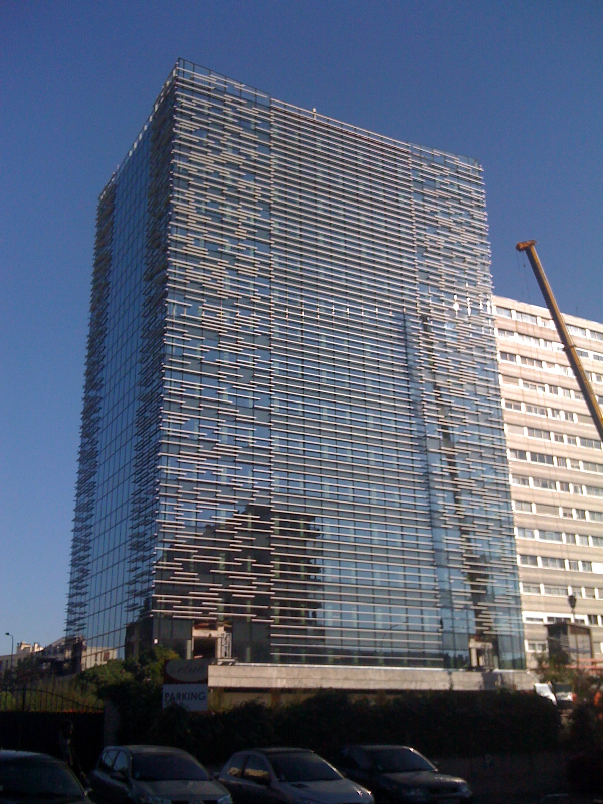 Nova Tower at La Garenne-Colombes, near La Défense, Paris